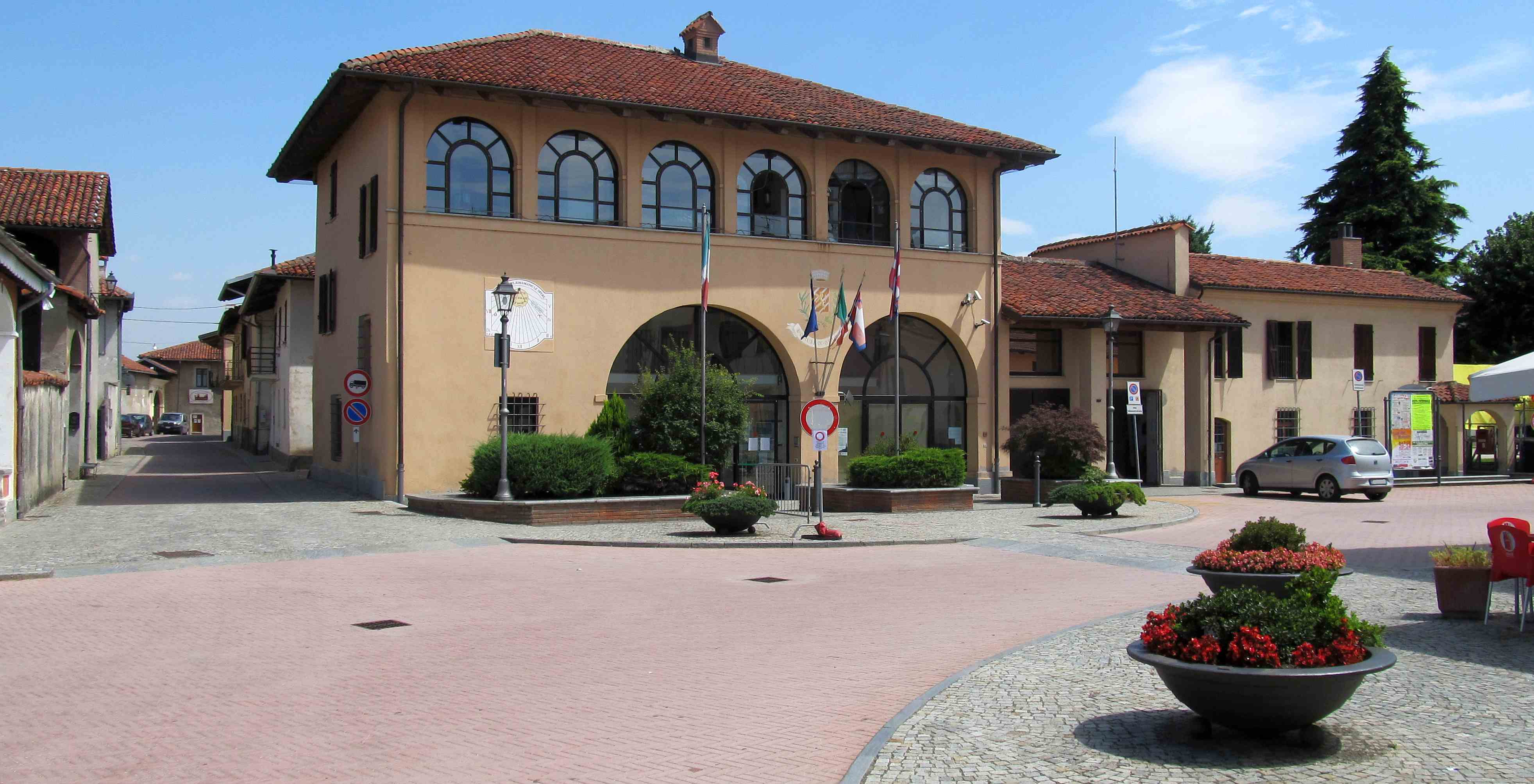 Osasco (TO, Italy): town hall